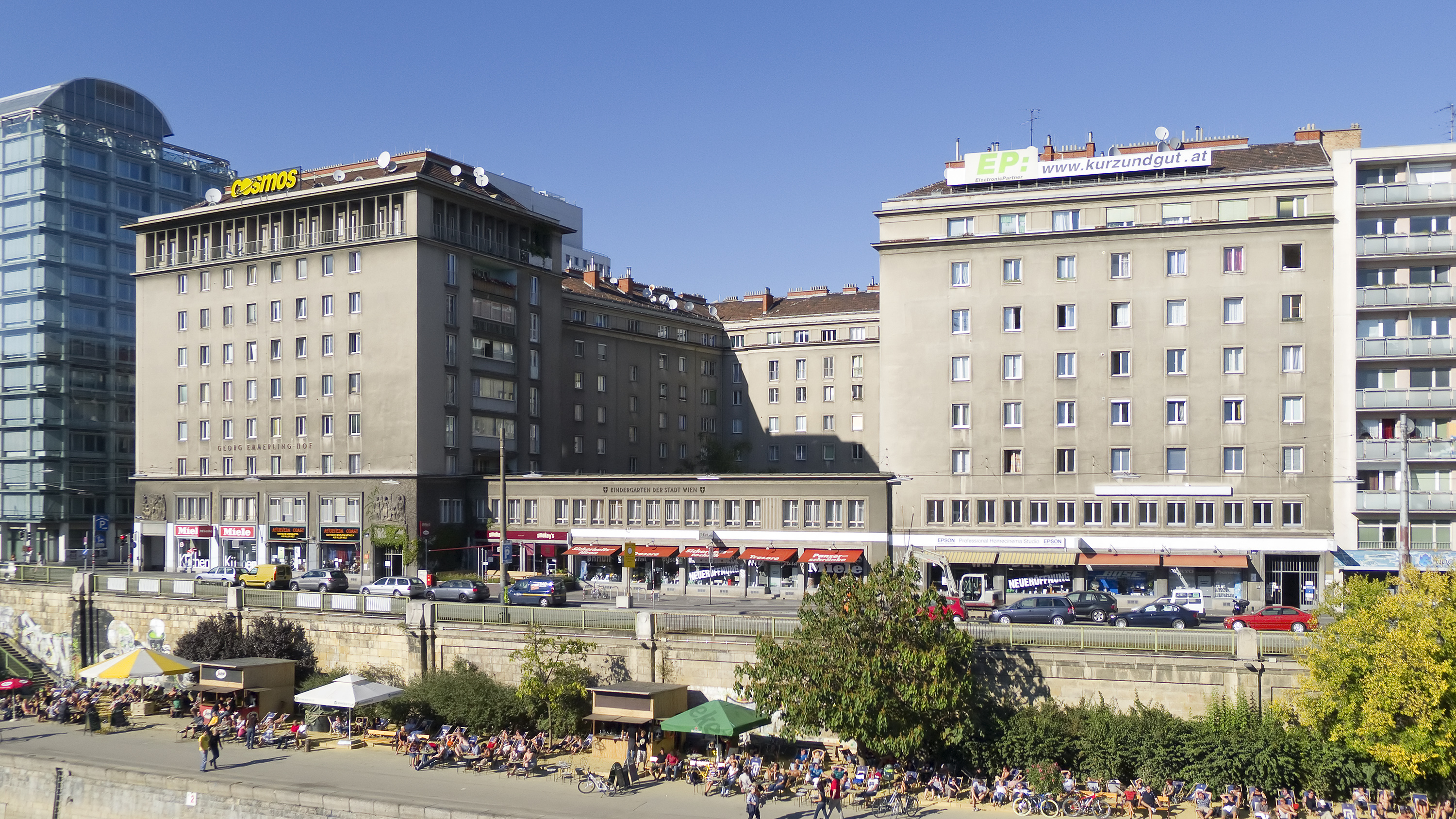 Residential building Georg-Emmerling-Hof in Vienna 2